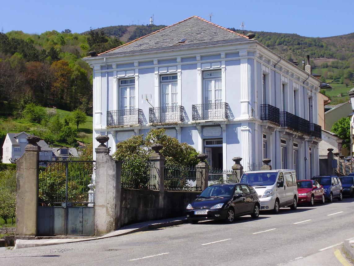 This picture shows another of the most representative big houses built at the begining of the 20th century in Boal (Asturias, Spain): Villa Damiana.